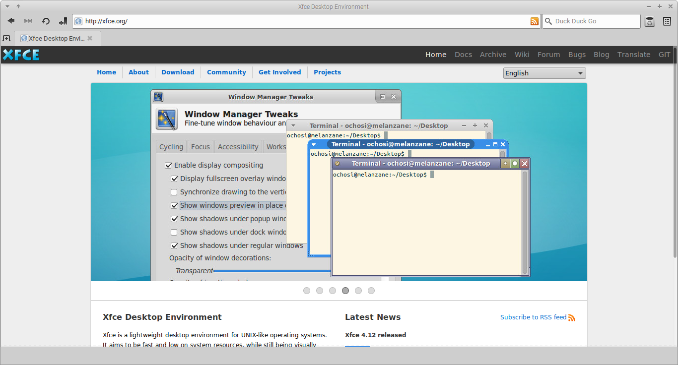 Midori browser showing site